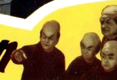 Colored lobby card for the 1951 theatrical feature "Superman and the Mole Men" featuring George Reeves and Phyllis Coates. This image is assumed to be in the public domain as no copyright notice is in evidence.